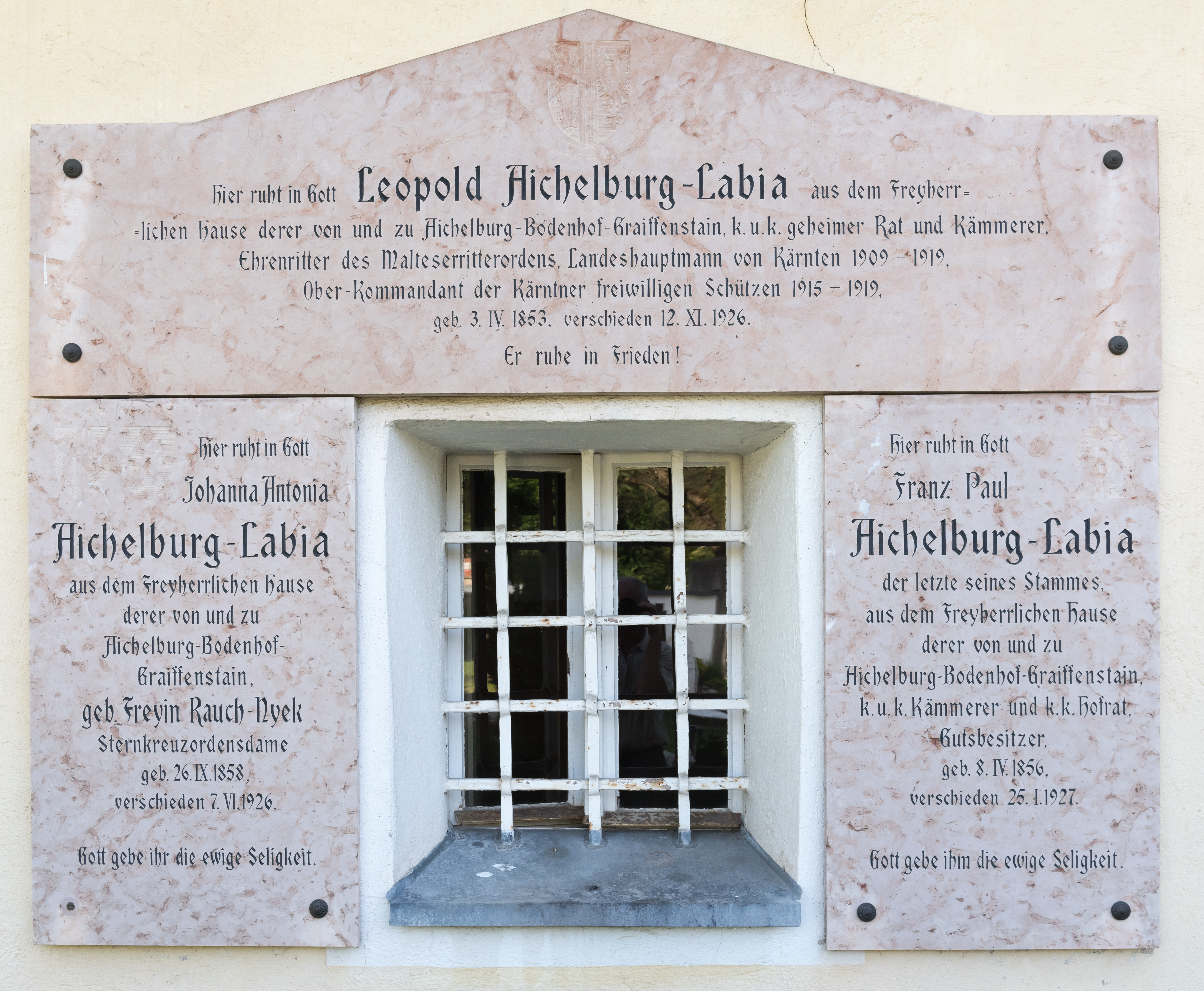 Gravestones of the noble family Aichelburg-Labia at the cemetery of Sankt Georgen am Sandhof, 9th district Annabichl, municipality Klagenfurt on the Lake Woerth, Carinthia, Austria, EU